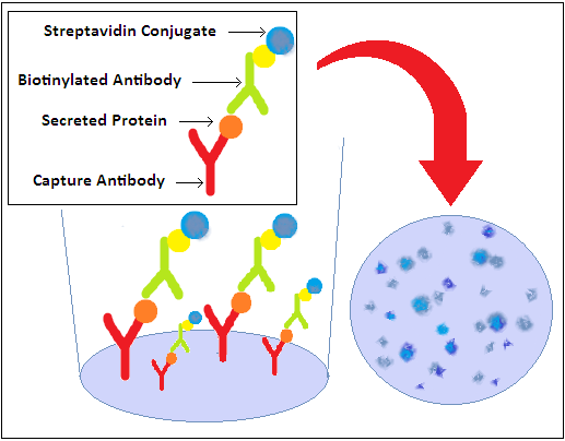 Graphical illustration of ELISPOT assay - translated to English from Catalàn